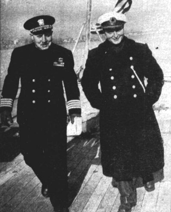 U.S. Navy Captain Arthur H. Graubart and Captain Hansjürgen Reinicke walk on deck of he former German heavy cruiser Prinz Eugen, officially USS Prinz Eugen (IX-300), off the Philadelphia Naval Shipyard, Pennsylvania (USA). Prinz Eugen had a crew of 8 officers and 85 enlisted men of the U.S. Navy supervising 27 officers and 547 enlisted men of the former German Kriegsmarine for tests. Reinicke was the commander of the German crew.